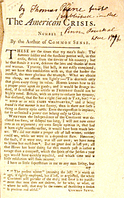 An image of the first page from the first edition of The American Crisis, a pamphlet authored by Thomas Paine.